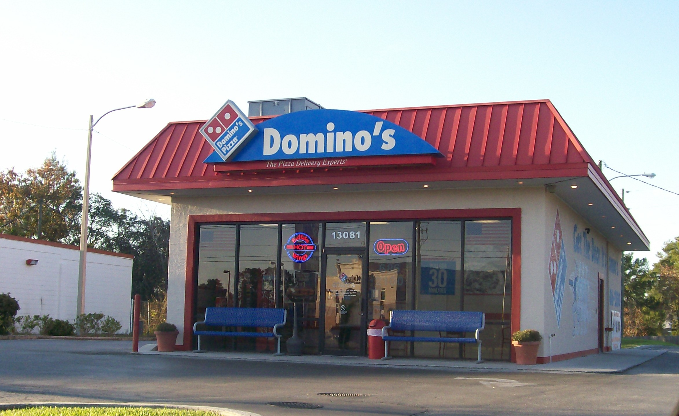 Dominos Pizza in Spring Hill Florida